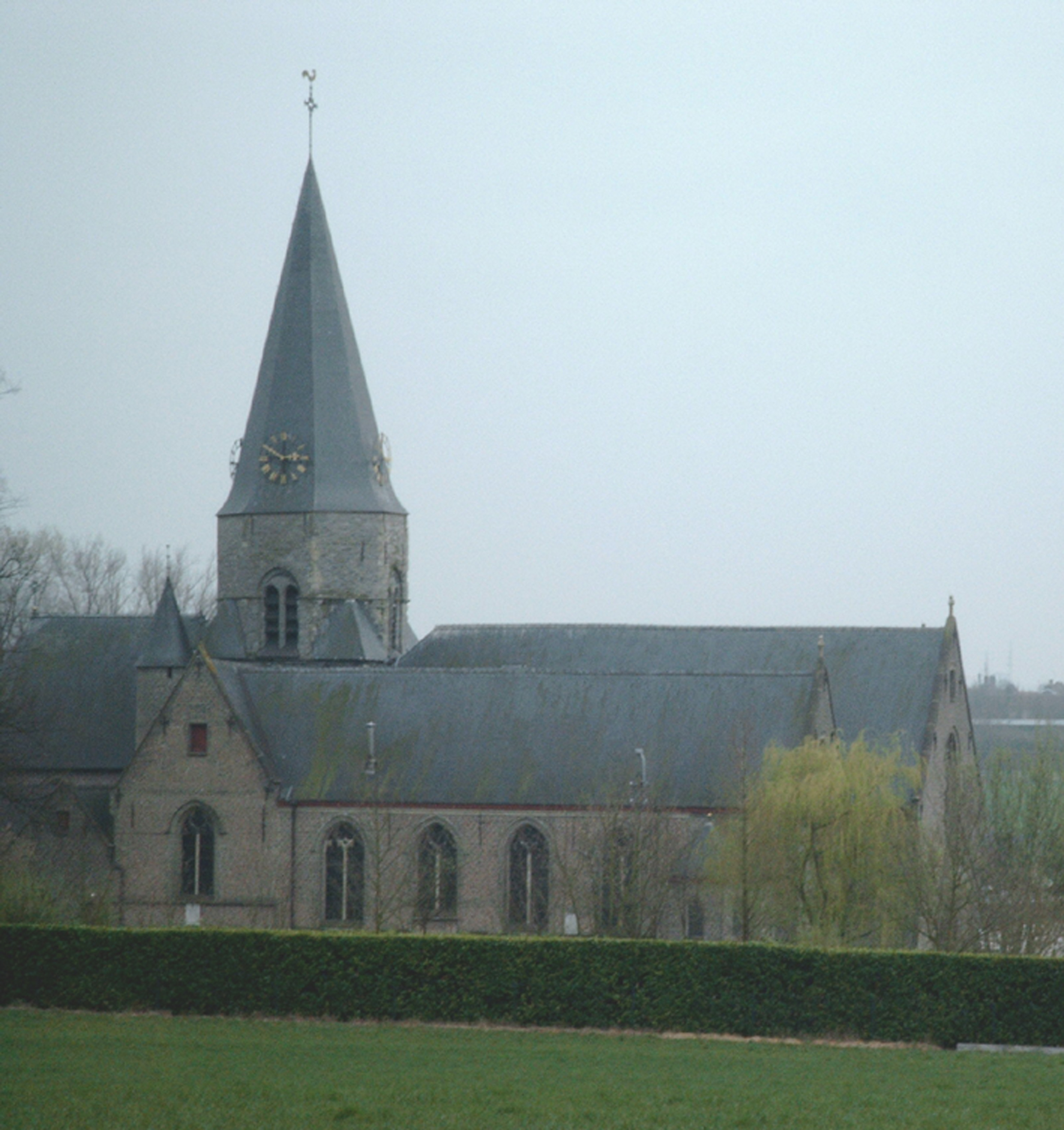 Church of Saint Ursmarus in NokereNokere, Kruishoutem, East Flanders, Belgium.